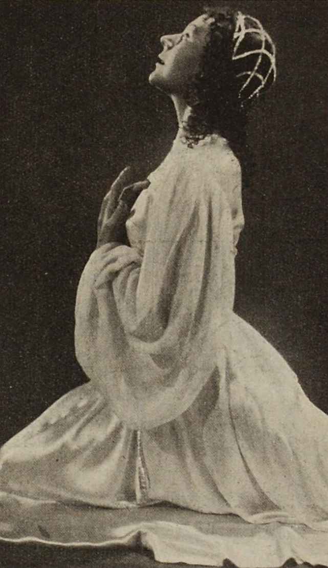 Zora Šemberová, Czech dancer as Julia, 1938